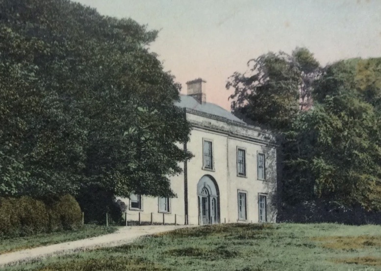 An old postcard etching of Busby Hall - the ancient seat of the Marwood family in North Yorkshire.